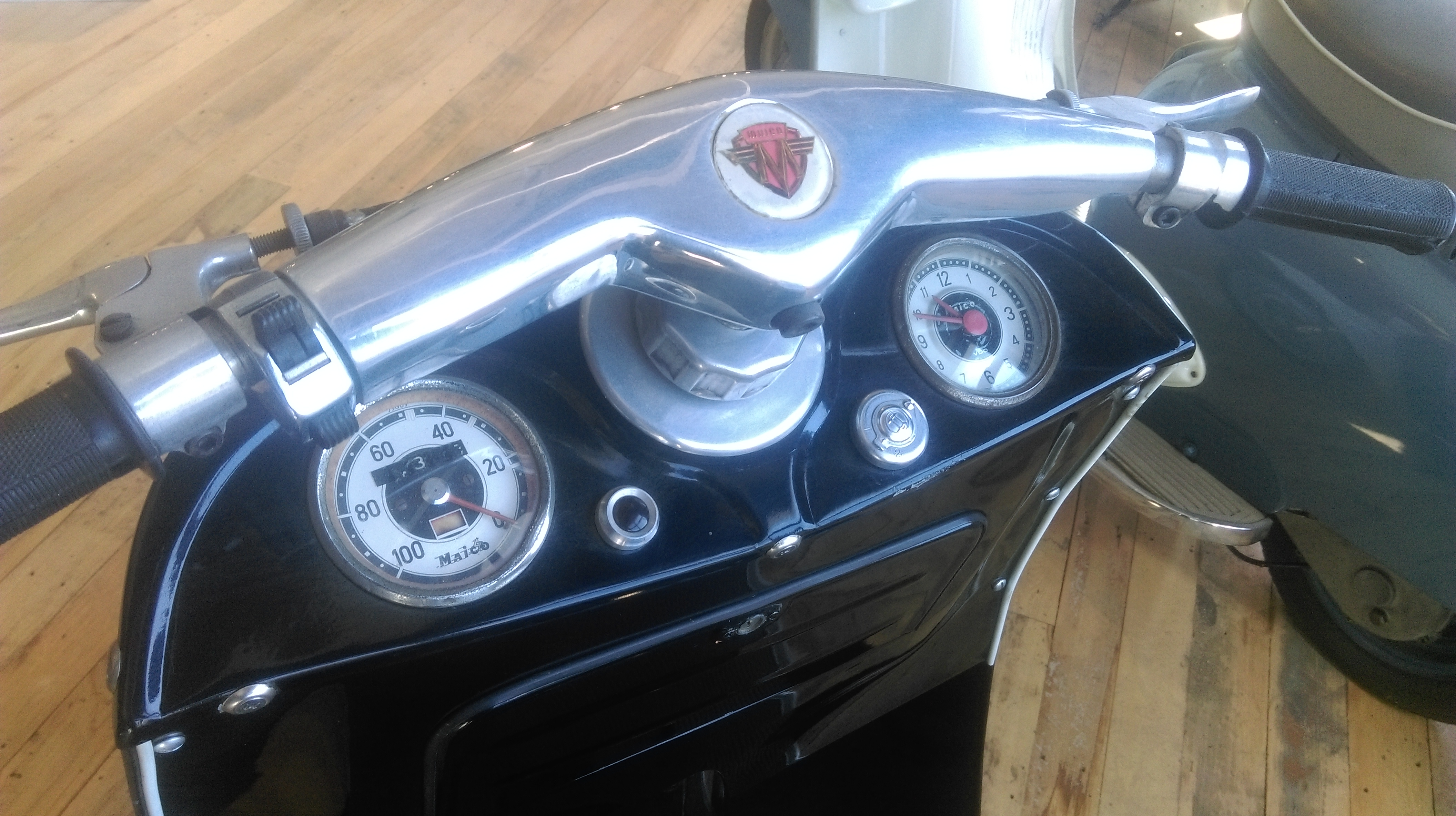 Maicoletta scooter dashboard, Invercargill, New Zealand